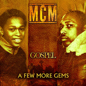 Author I-innovate (UK) N.Okena/C.Gibbs